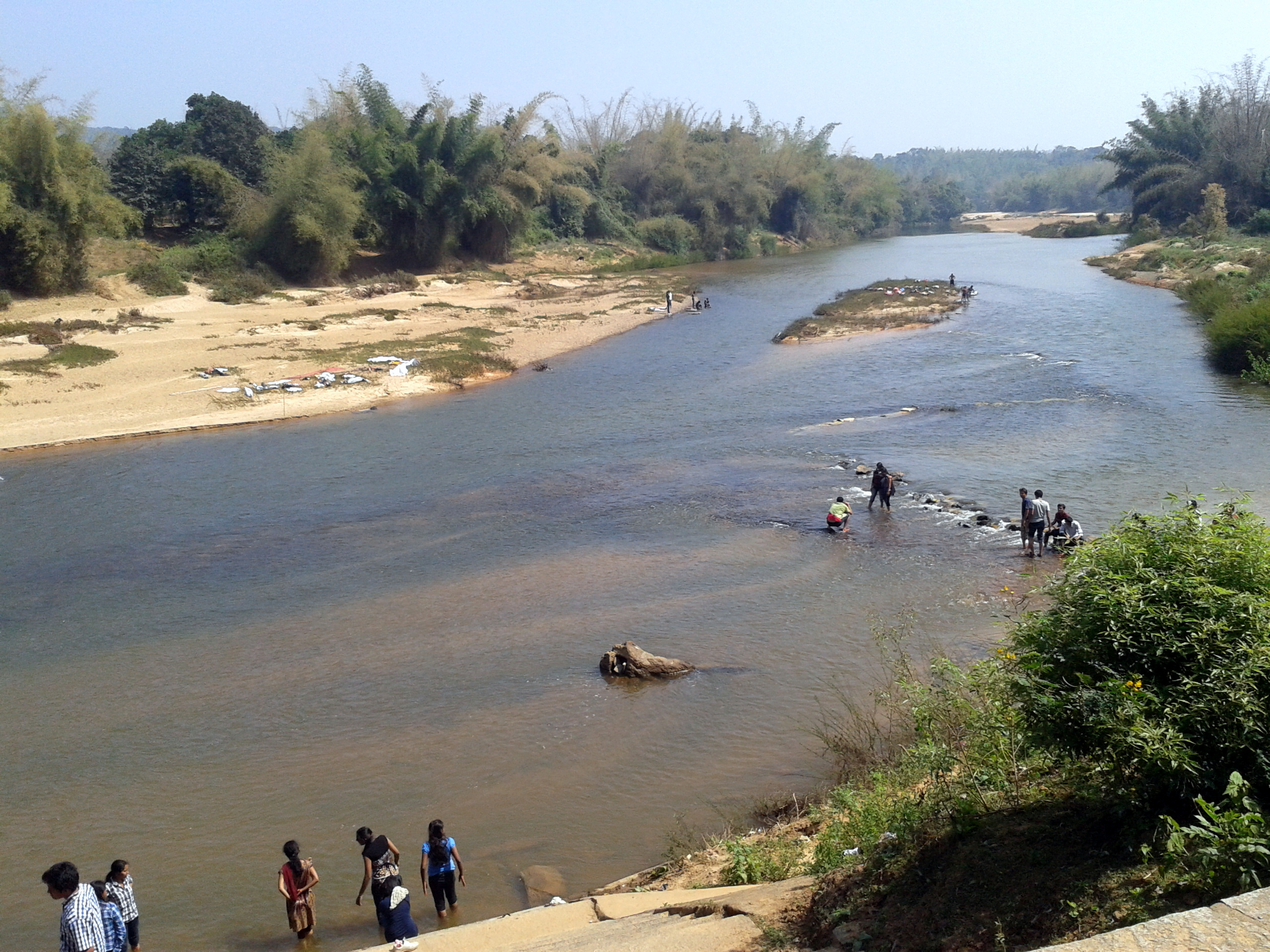 Tunga River infront of Hariharapura temple